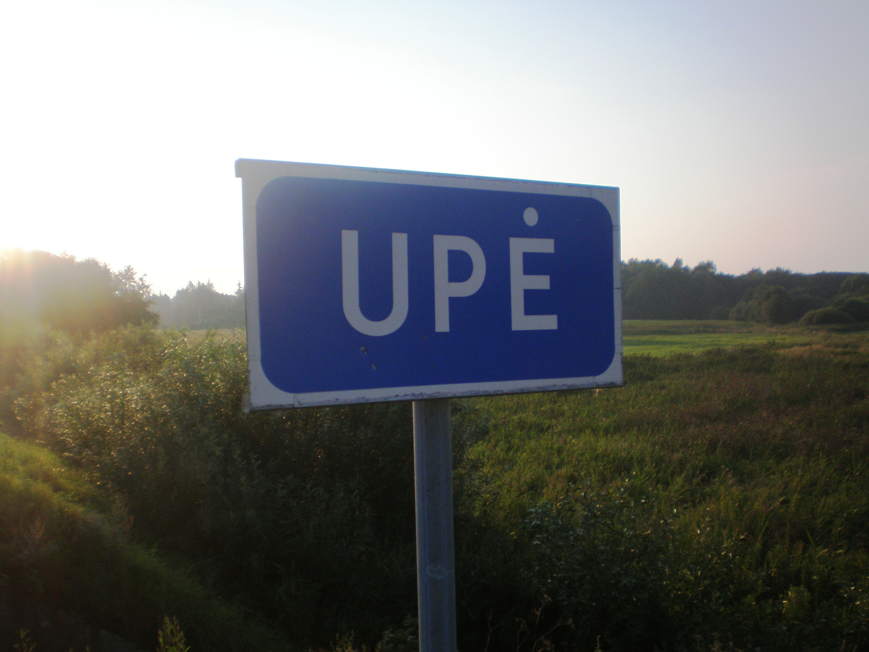 Upė river (the name is very interesting because it means "river")